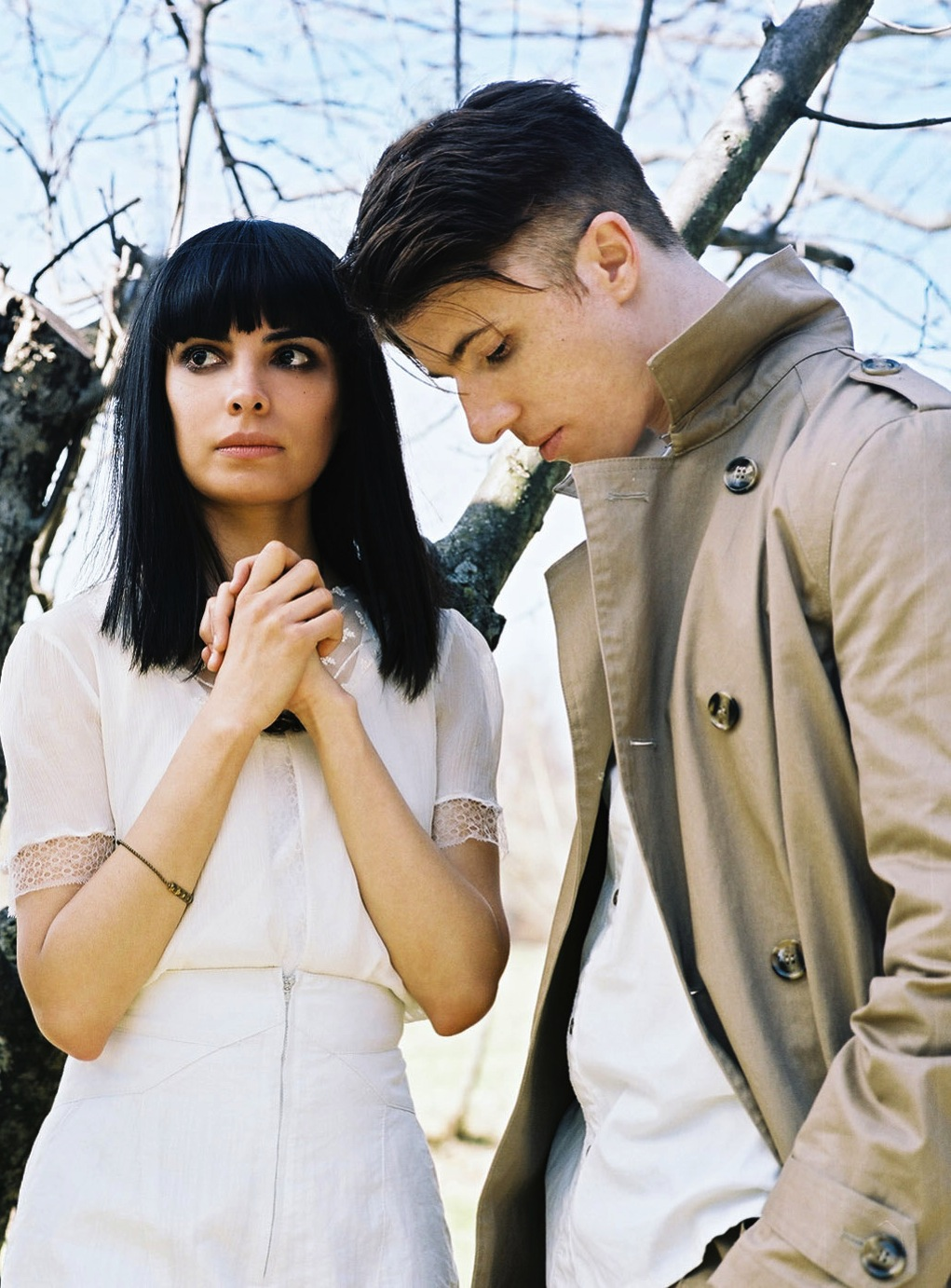 Current lineup of School of Seven Bells